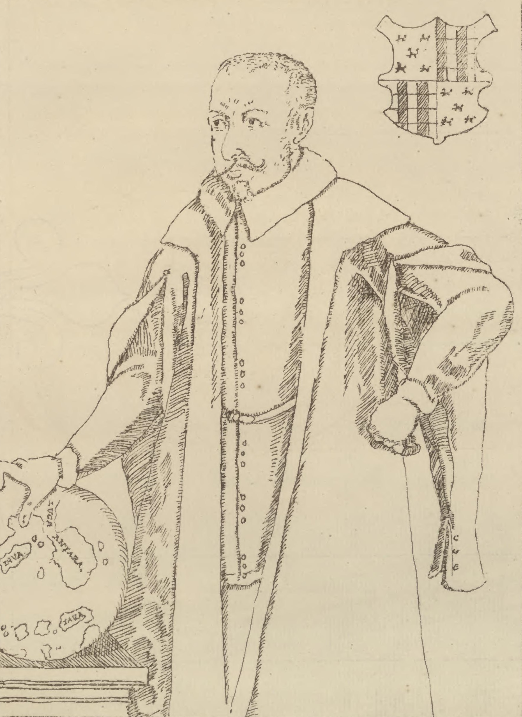 Self portrait of Manuel Godinho de Erédia in his Declaraçam de Malaca e India Meridional com o Cathay (1613), Bibliothèque royale de Belgique, f. 82r.